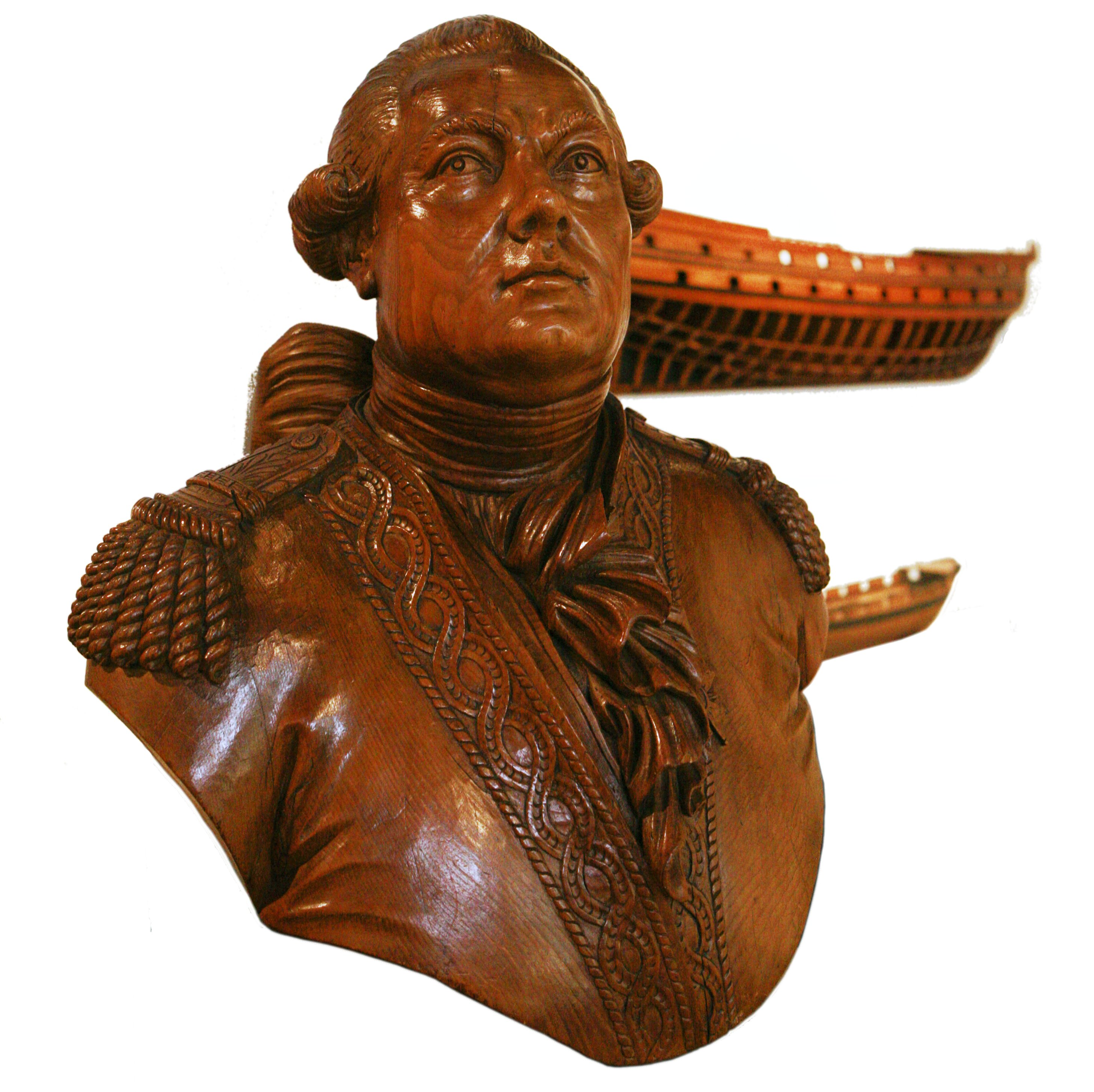 Bust of engineer Antoine_Groignard (Solliès-Pont (Var), 1727 - Paris, 1799) On display at Toulon naval museum. Access number 41 OA 196